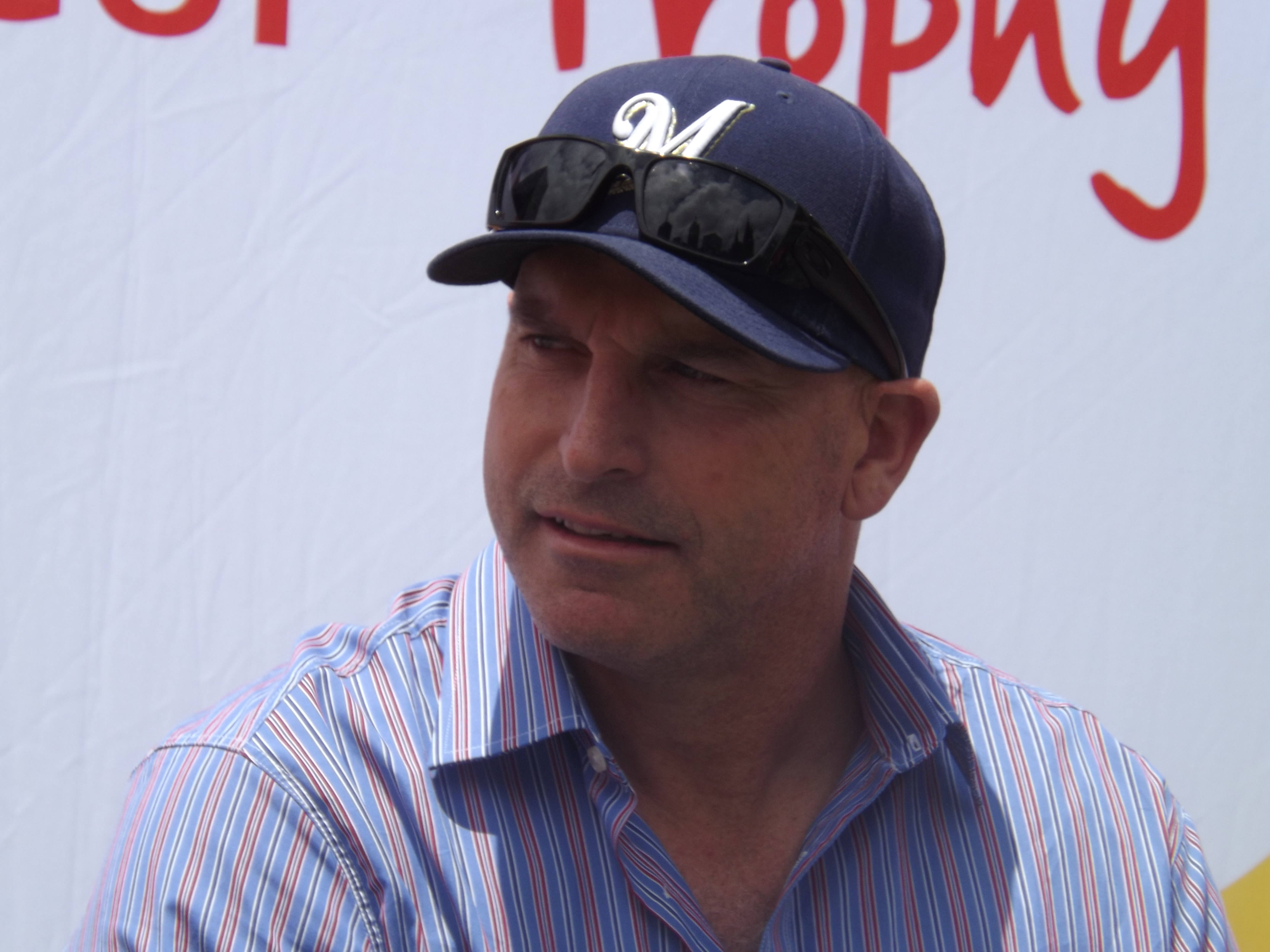 Andy Harper during the 2015 AFC Asian Cup tour at Federation Square, Melbourne.